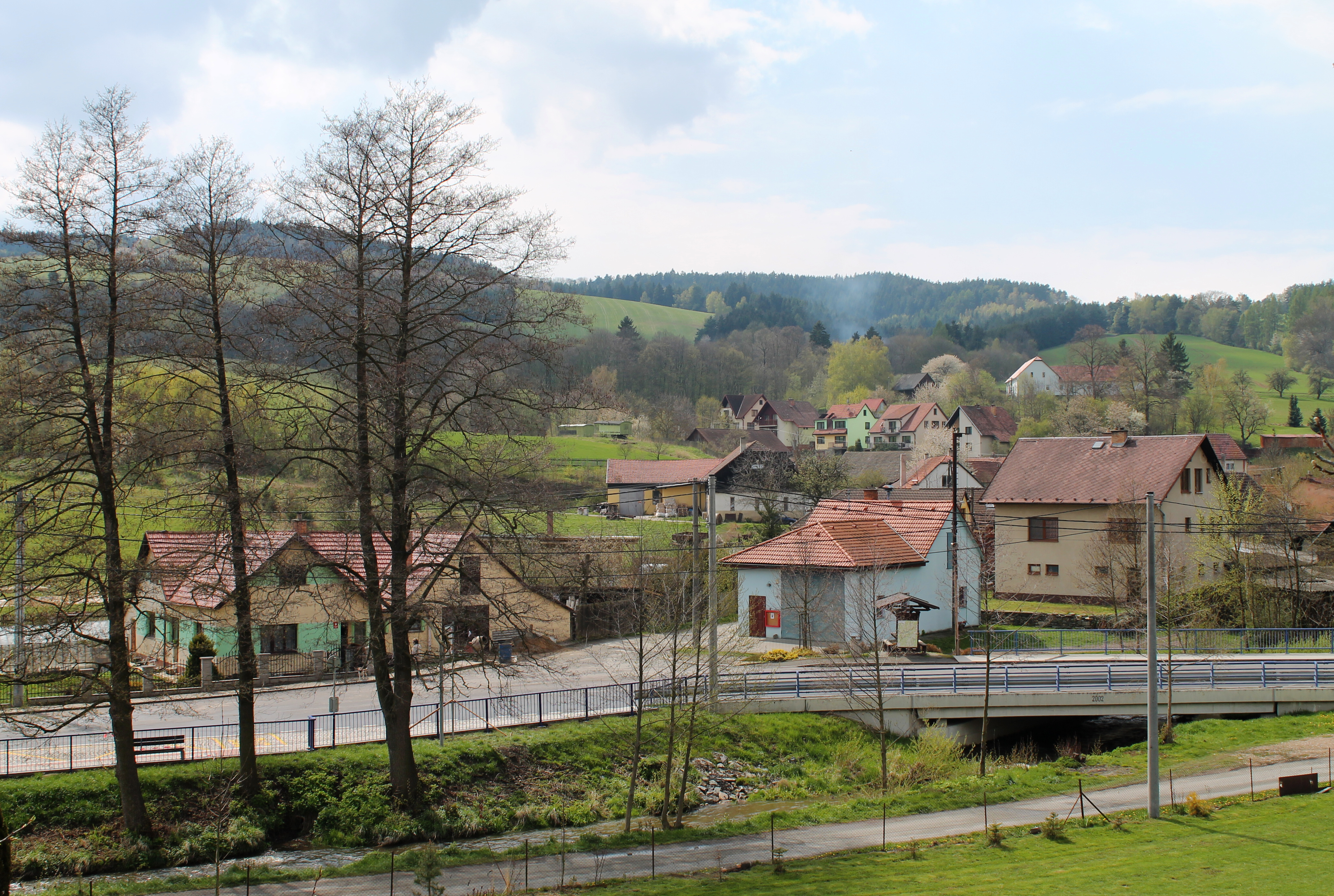 Horní Poříčí, Blansko District, Czech Republic This photograph was taken during a group photography field trip by Brno Wikipedians: 2017-04-29.